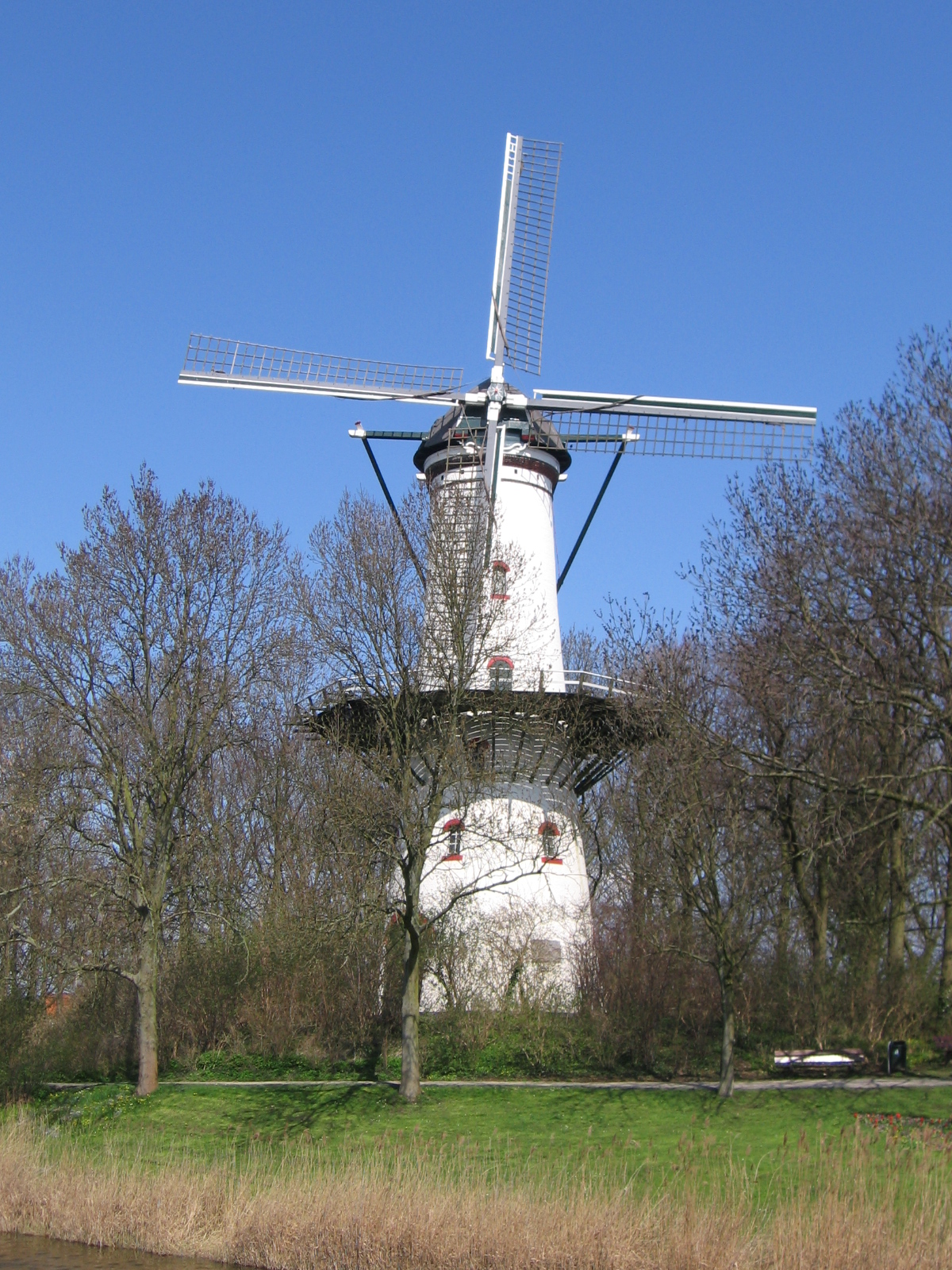 Tholen